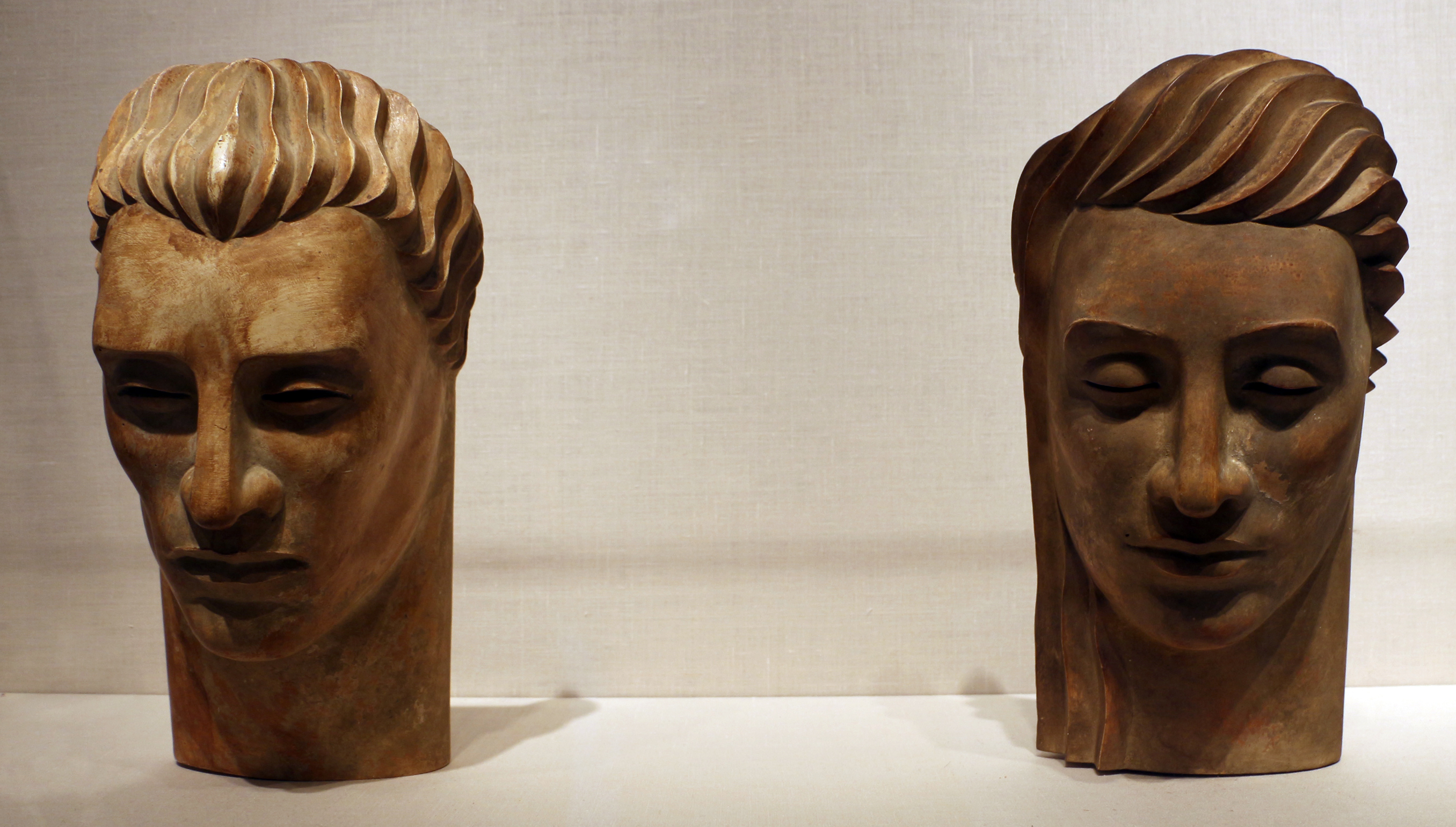 European sculpture in the Art Institute of Chicago